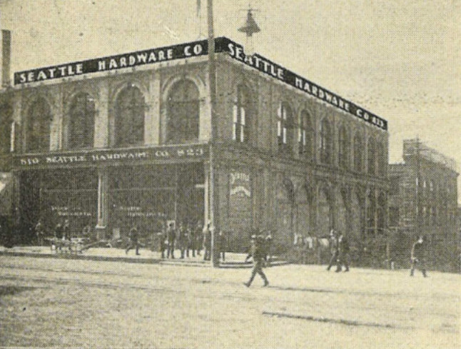 "Exterior Seattle Hardware Co." from the brochure Seattle and the Orient (1900). Seattle Hardware Co. had several buildings over the years. Right at the corner over the ground floor in this photo appears to be a number "823" (also on top of the building toward the back at right) so this must be the building at 819-823 First Avenue, mentioned in the caption of Downtown Seattle looking north from James Street, Seattle, ca. 1900 in the University of Washington Libraries Digital Collections. This is part of what is now known as the Colman Building. : "…the building took many years to complete between 1889-1904. … [the] original section of the building had arched windows separated by piers on the second floor, cast iron columns on the first … In 1904 … all arched windows were replaced with trabeated ones …"